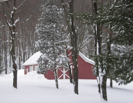 A winter scene in Boonton Township.